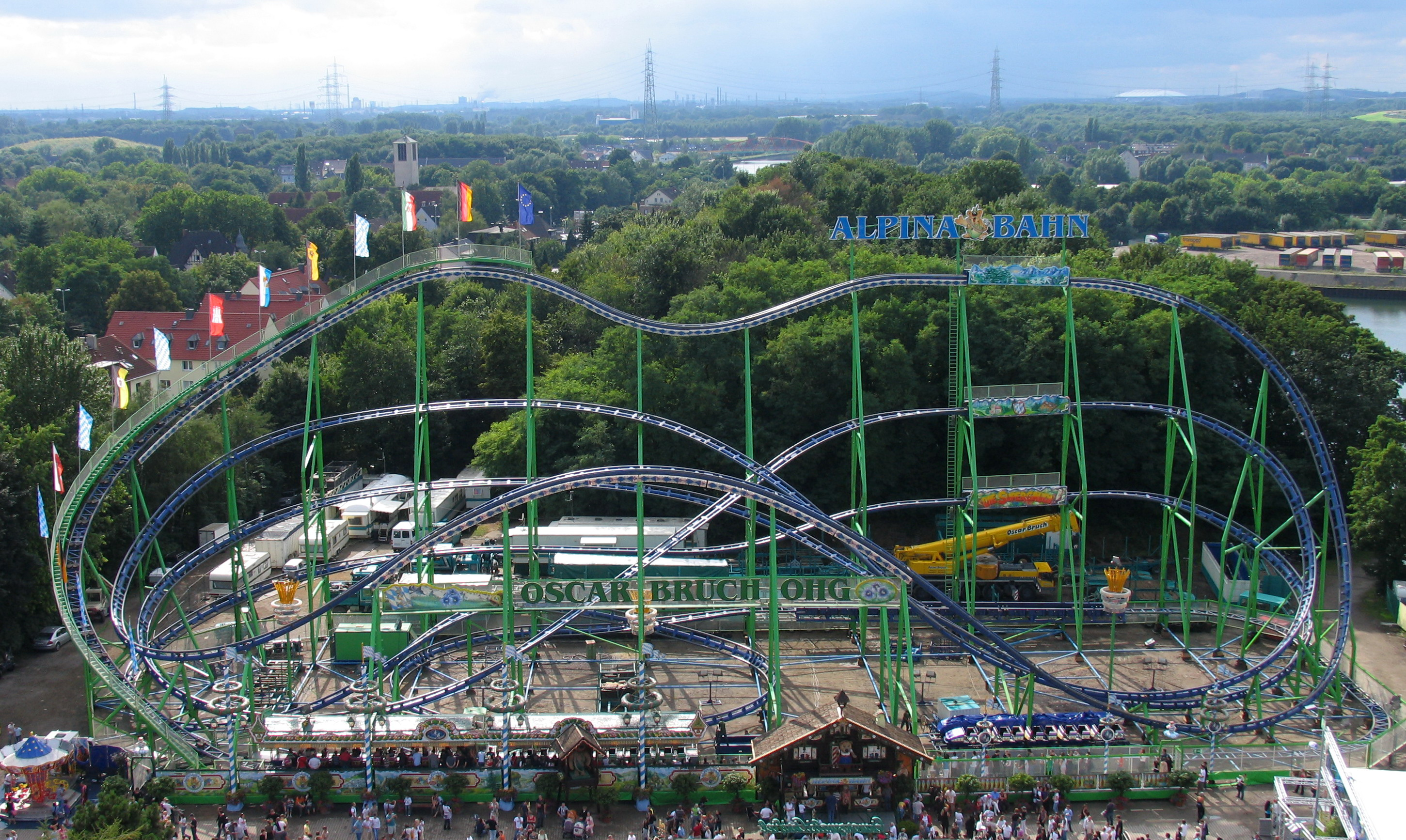 Roller coaster Alpina Bahn at Cranger Kirmes 2008